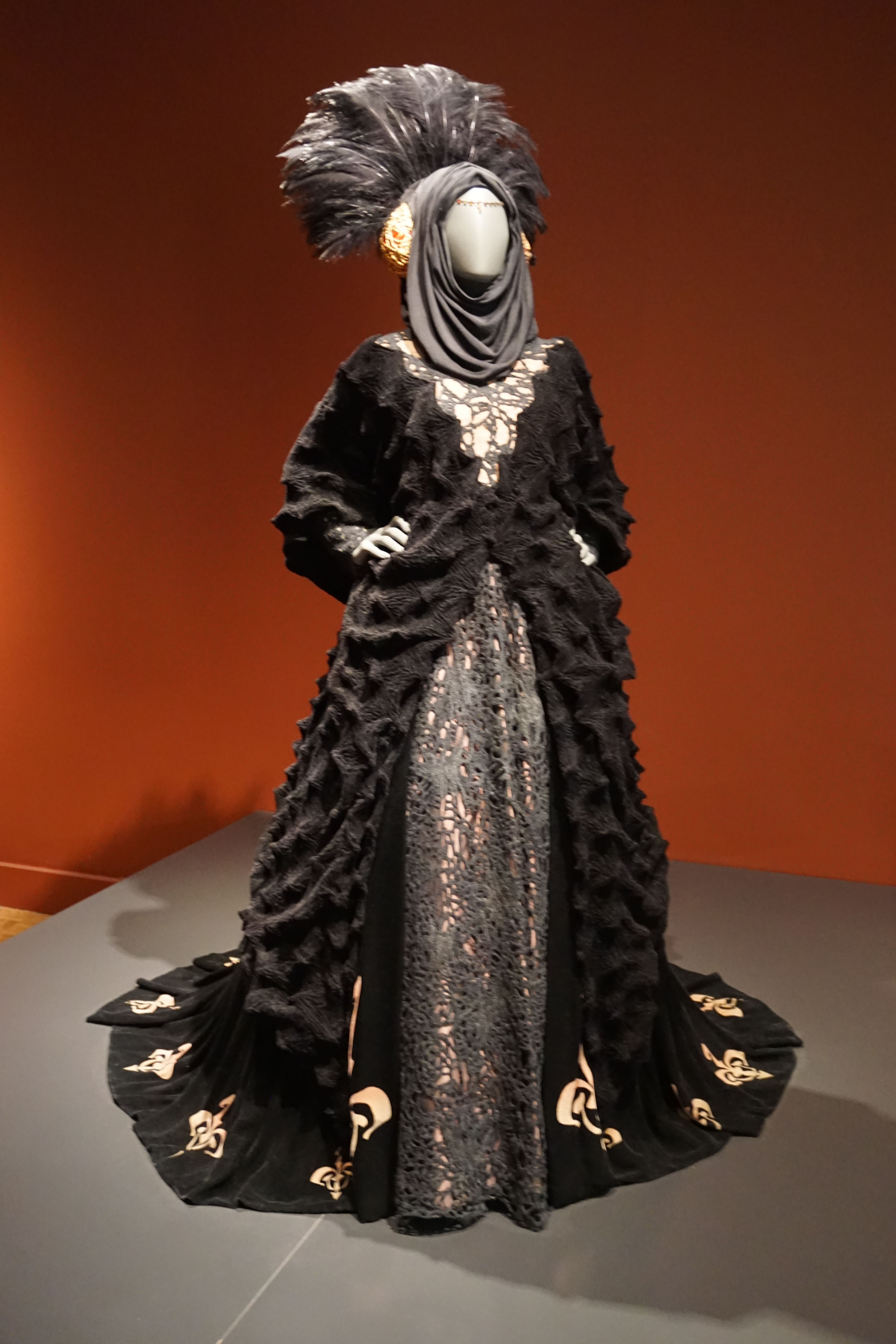 Queen Amidala's Naboo escape gown from Star Wars: Episode I – The Phantom Menace on display at the Star Wars and the Power of Costume traveling exhibit at the Detroit Institute of Arts in Detroit, Michigan (United States).